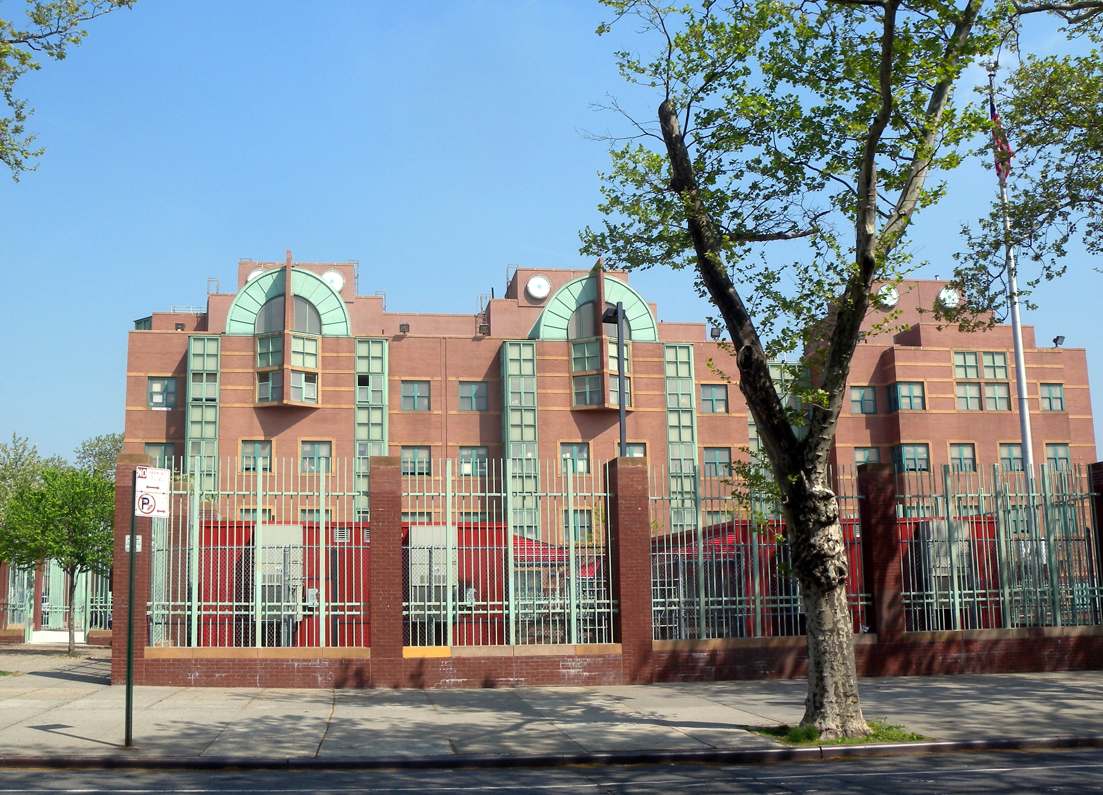 Looking north across 34th Avenue at the new P.S. 92 Harry T Stewart Senior school on its old school site at 99-01 34th Avenue on a sunny late morning. ZIP 11368.